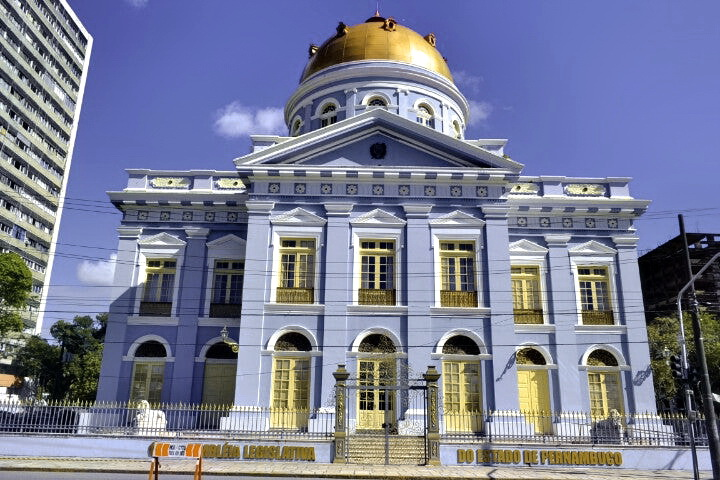 Assembleia Legislativa de Pernambuco